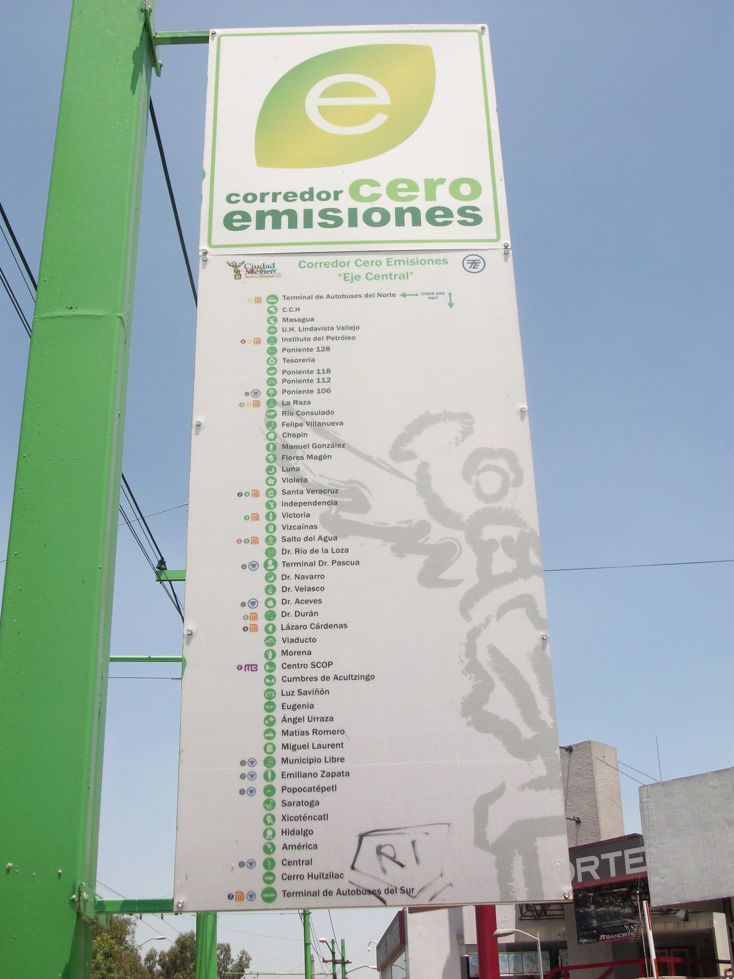 Sign giving list of "stations" (stops) on Mexico City's "Zero-Emissions Corridor" trolleybus line